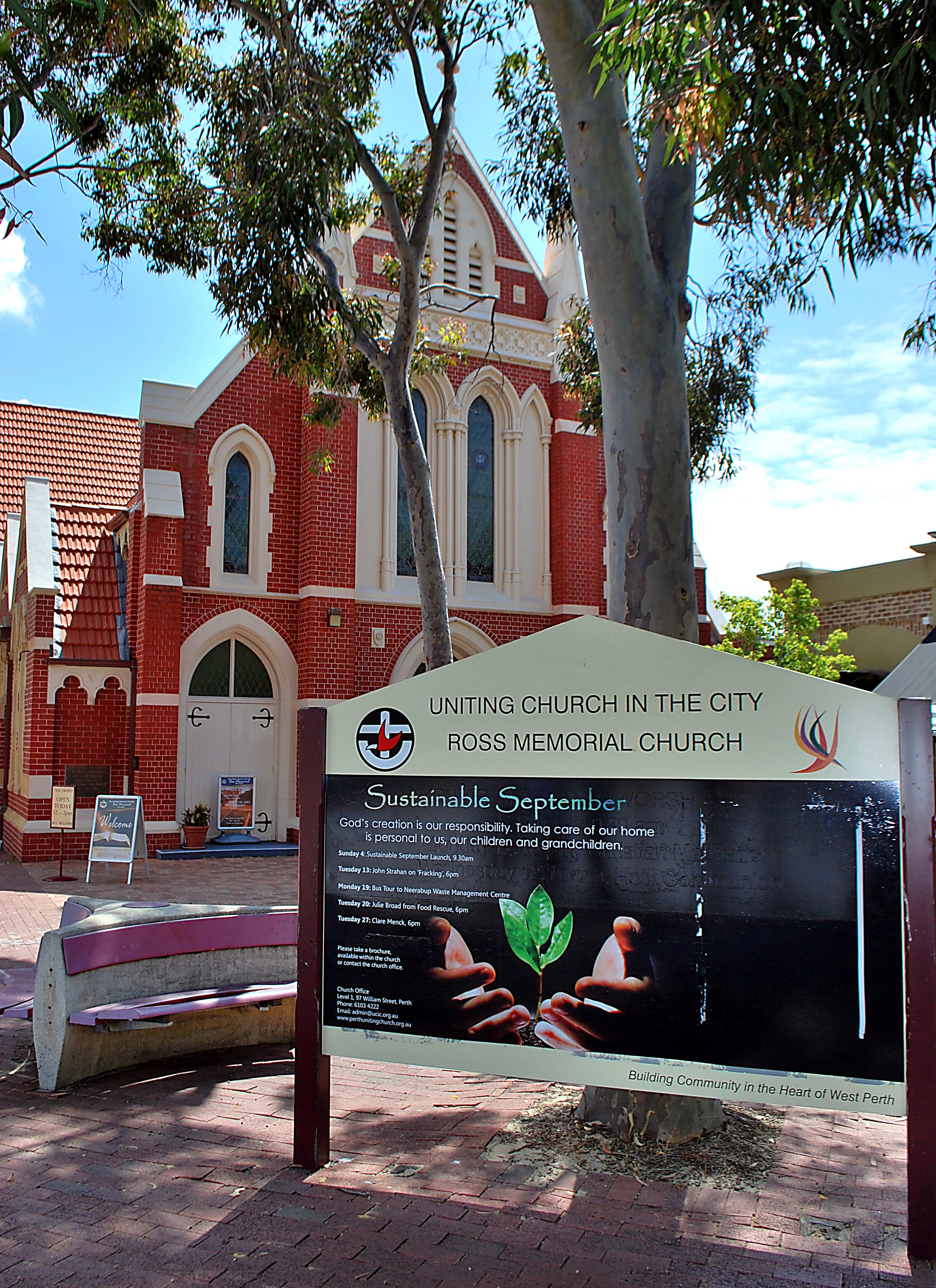 Ross Memorial Church Front with Sign